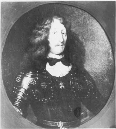 Philipp Wilhelm, Elector Palatine (1615-1690)